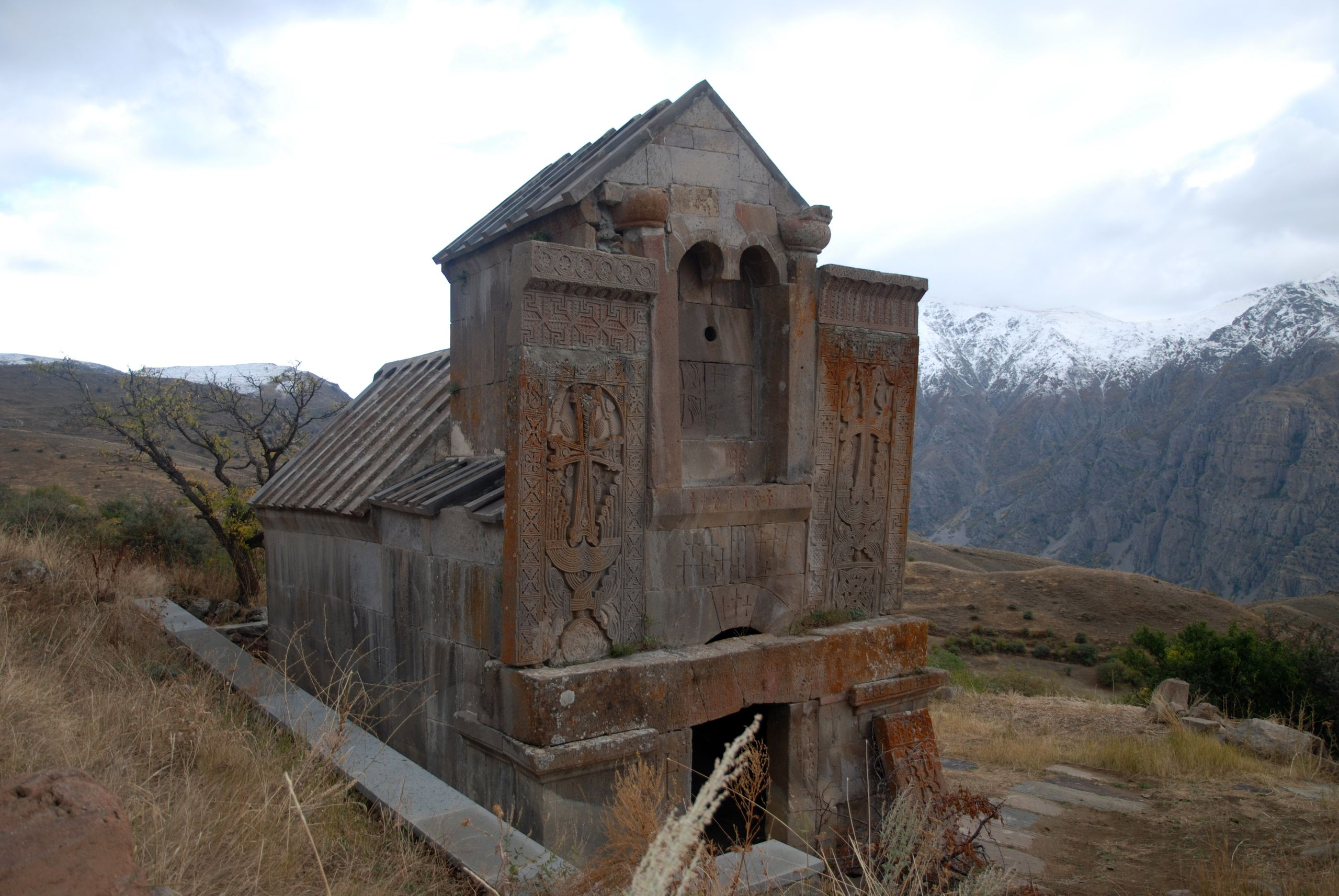 Tsakhats Kar, Surp Nshan from northwest